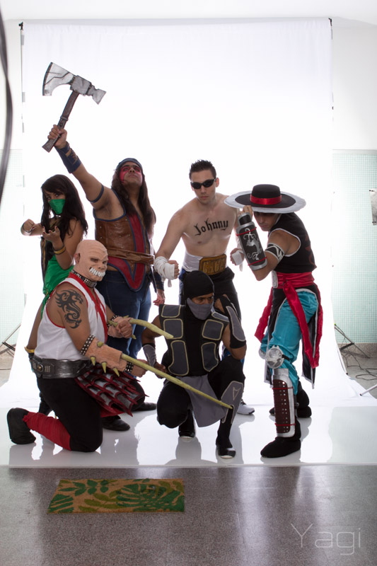 AnimABC - 2011 2nd ed.